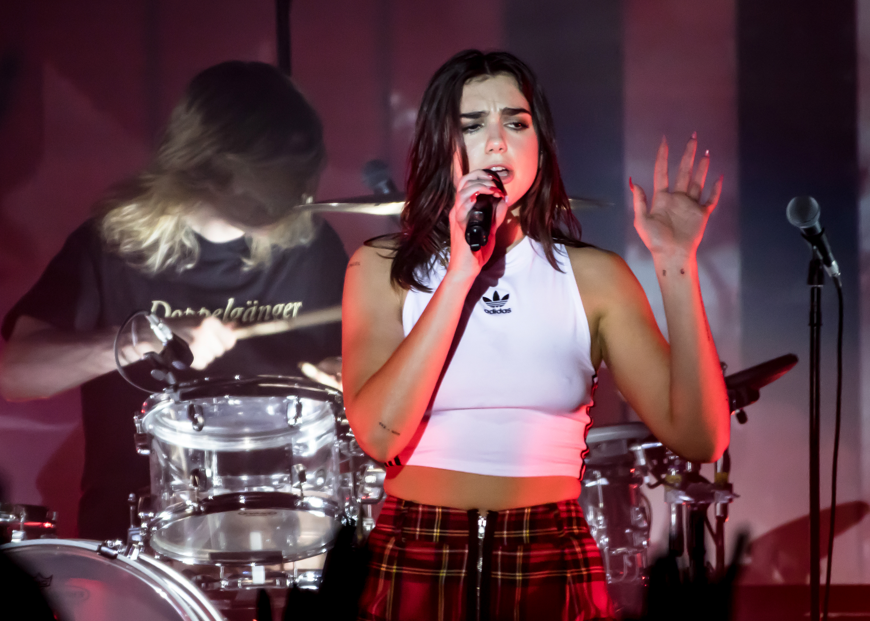 Dua Lipa performing live at The Palladium in Hollywood, Los Angeles, California, on Thursday, February 8, 2018. The first of two sold out nights at this venue on Dua's "Self-Titled" Tour. Shot for Live Nation's Ones To Watch.